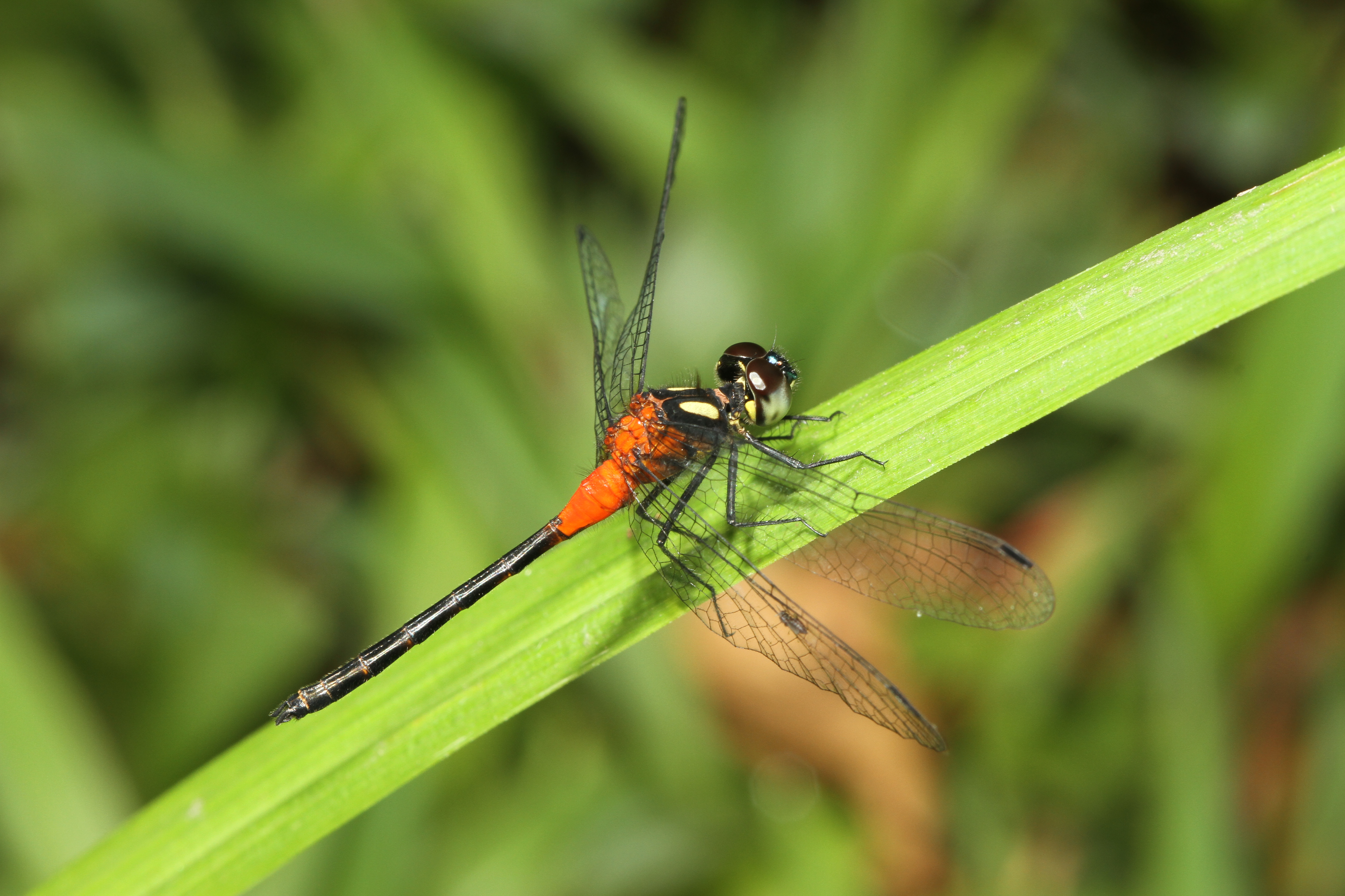 Epithemis mariae from India.